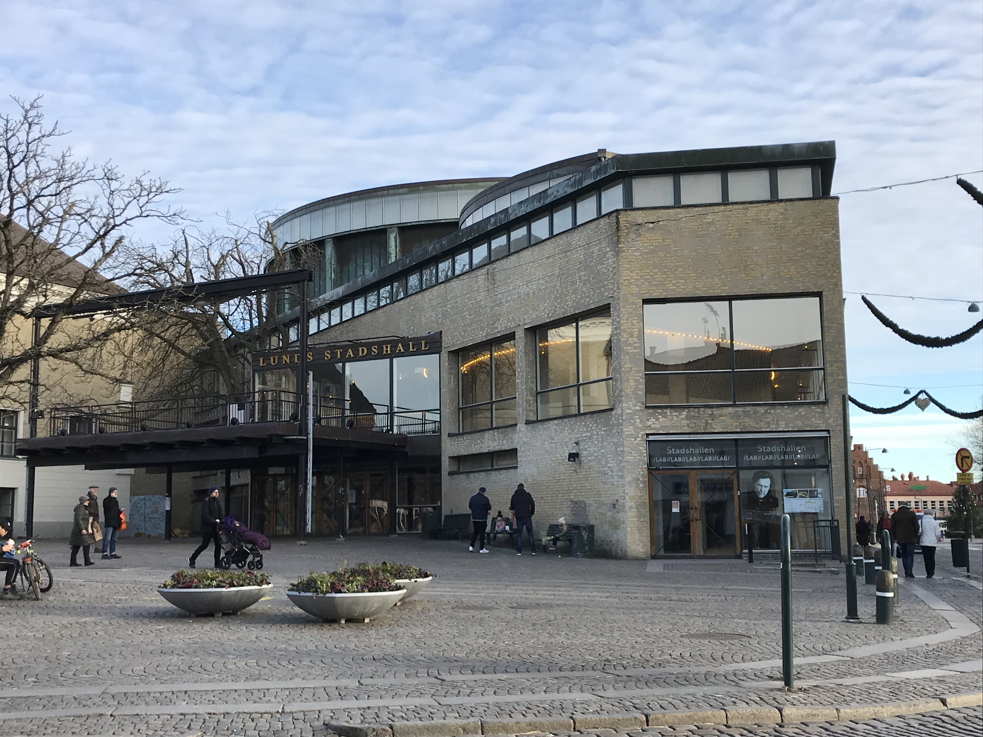 Lund Town Hall from 1968, Lunds stadshall, architectː Klas Anshelm, January 3, 2019